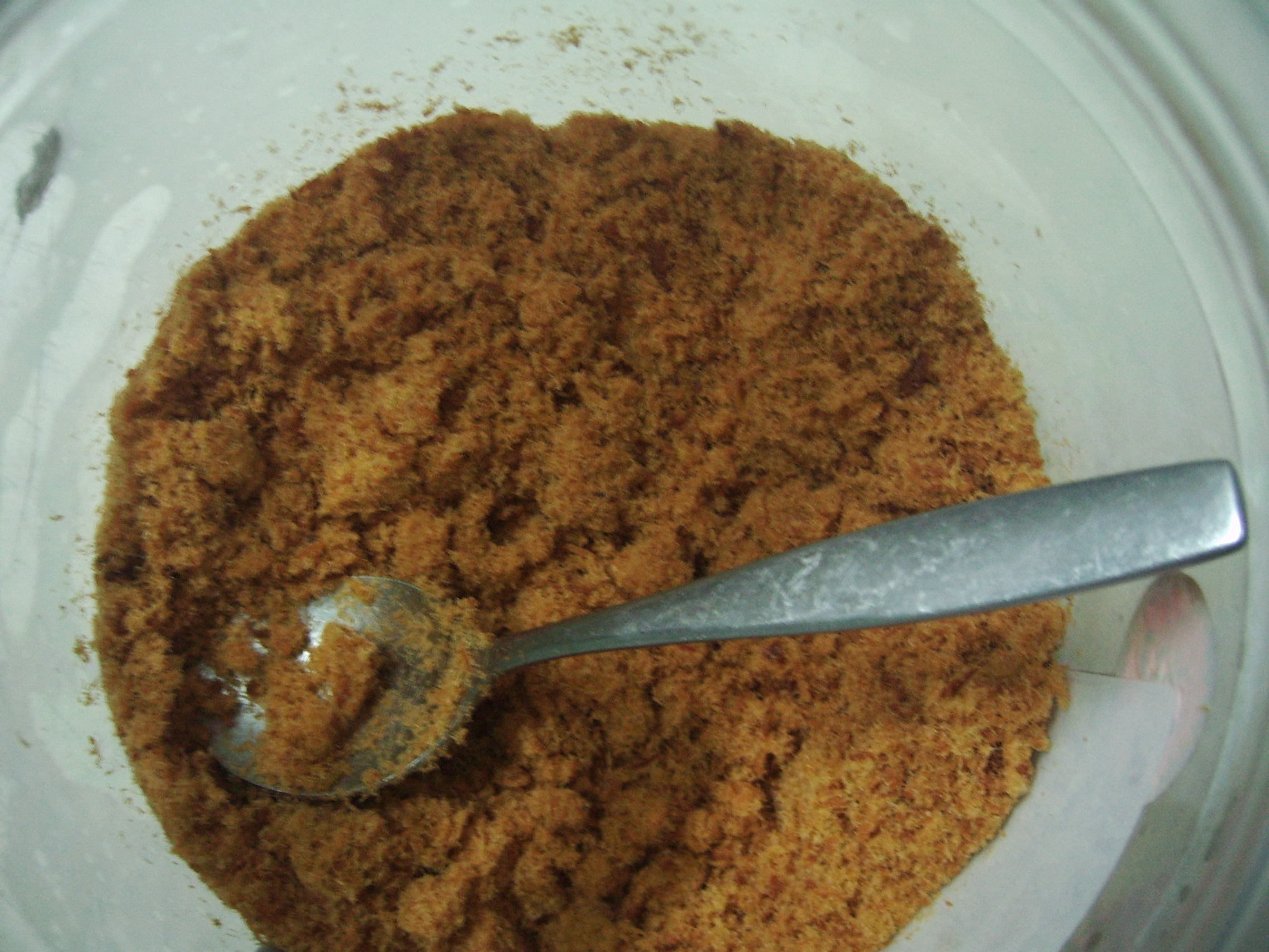 Fish floss is roasted and looks as much almost like meat floss.